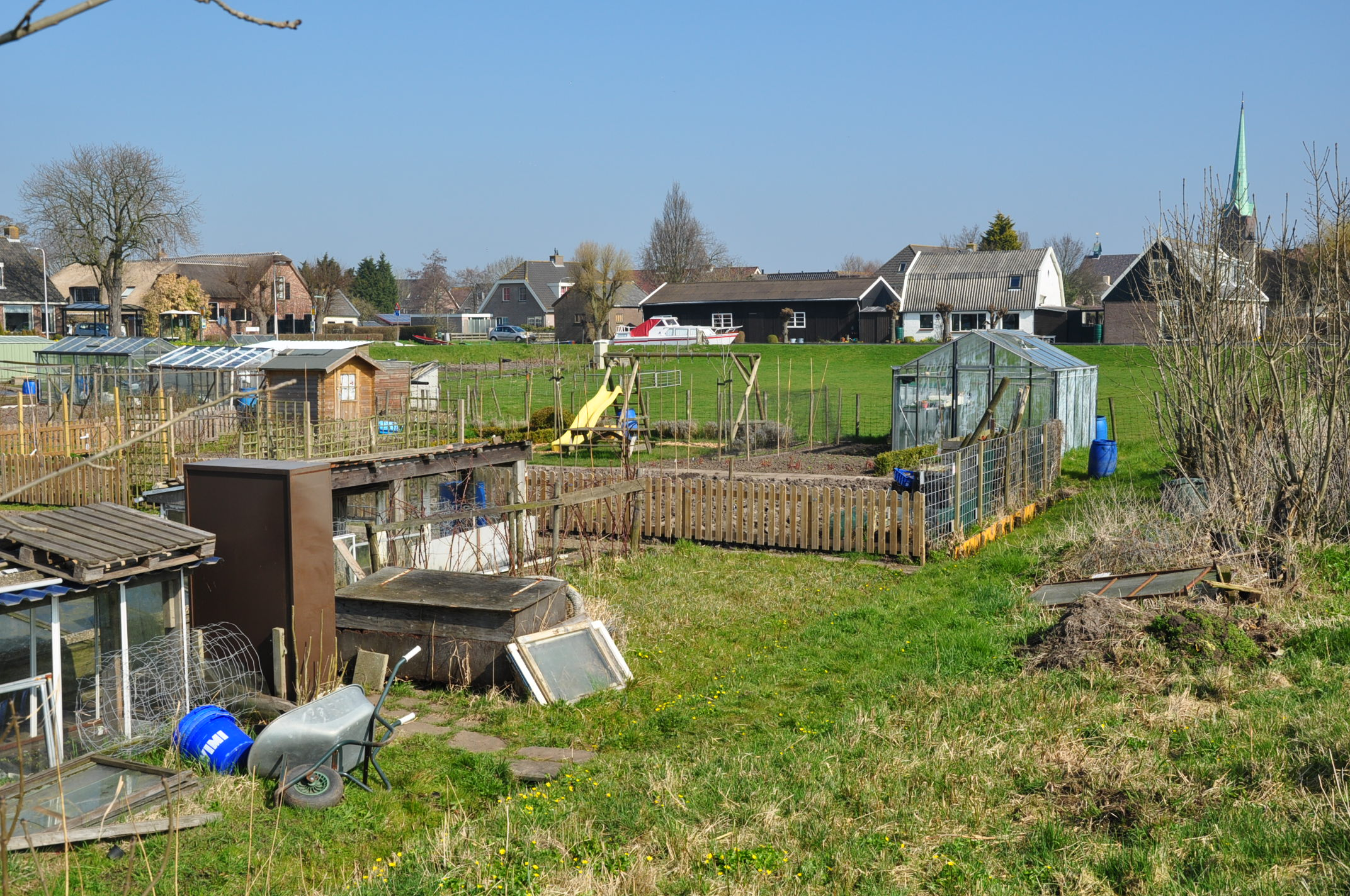 Allotment gardens in the small Piest polder in Hoogmade (municipality Kaag en Braassem, Province South-Holland, Netherlands).